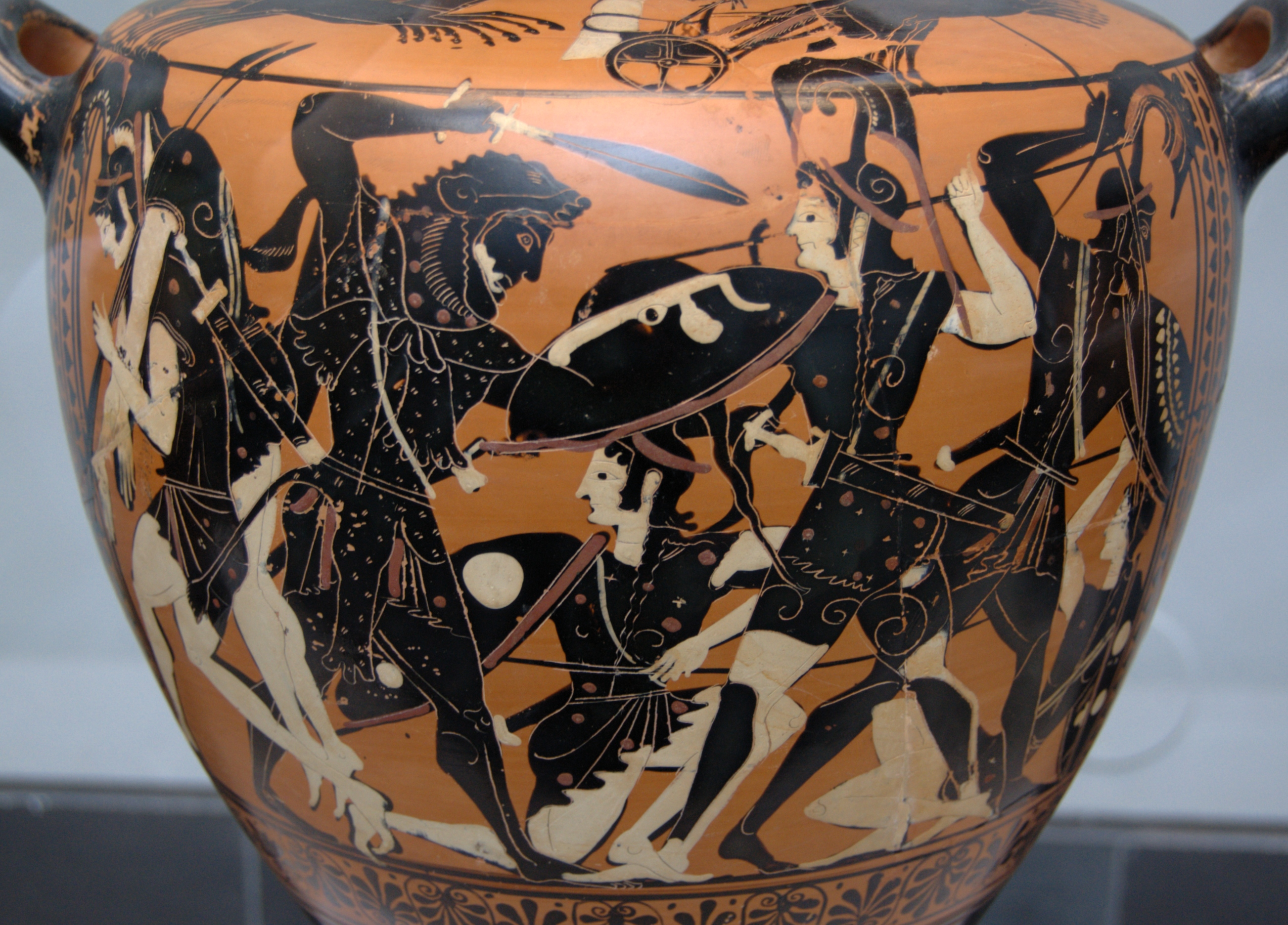 Heracles fighting the Amazons. Attic black-figure hydria, ca. 530 BC. From Vulci.